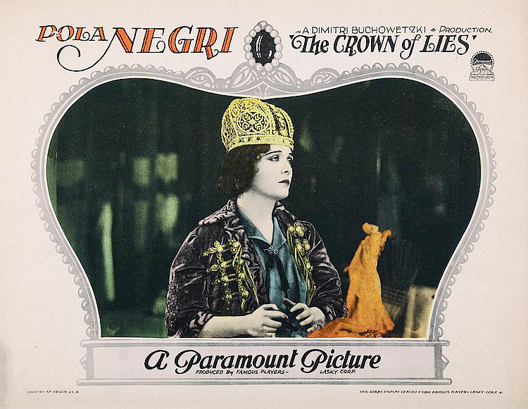 Lobby card for the American drama film The Crown of Lies (1926). There are no copyright marks on the card. At bottom left is Country of origin USA. At bottom right is This lobby display leased from Famous Players Lasky Corp.